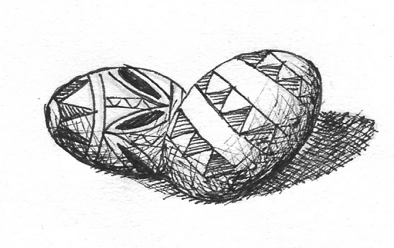 Easter eggs, drawing by Michal Klimt